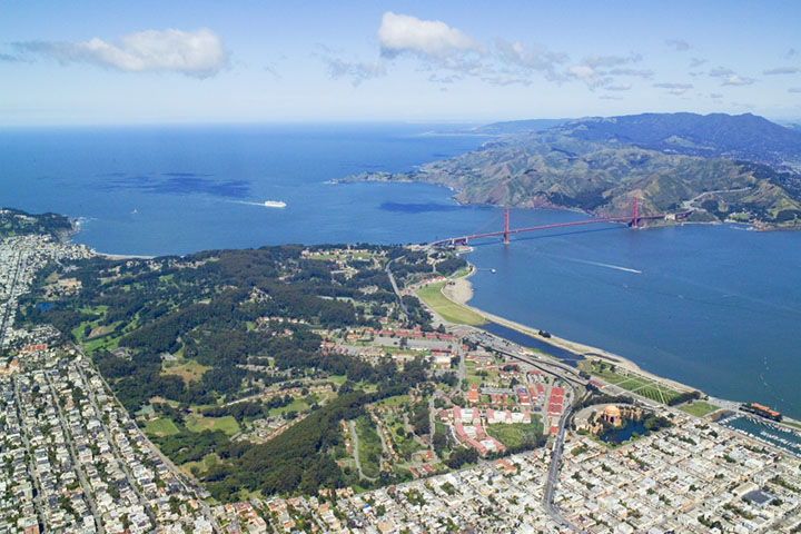 Aerial view of the Presidio of San Francisco, the Golden Gate and bridge, and the Marin Headlands and Mount Tamalpais (right backround) - Northern California, U.S.